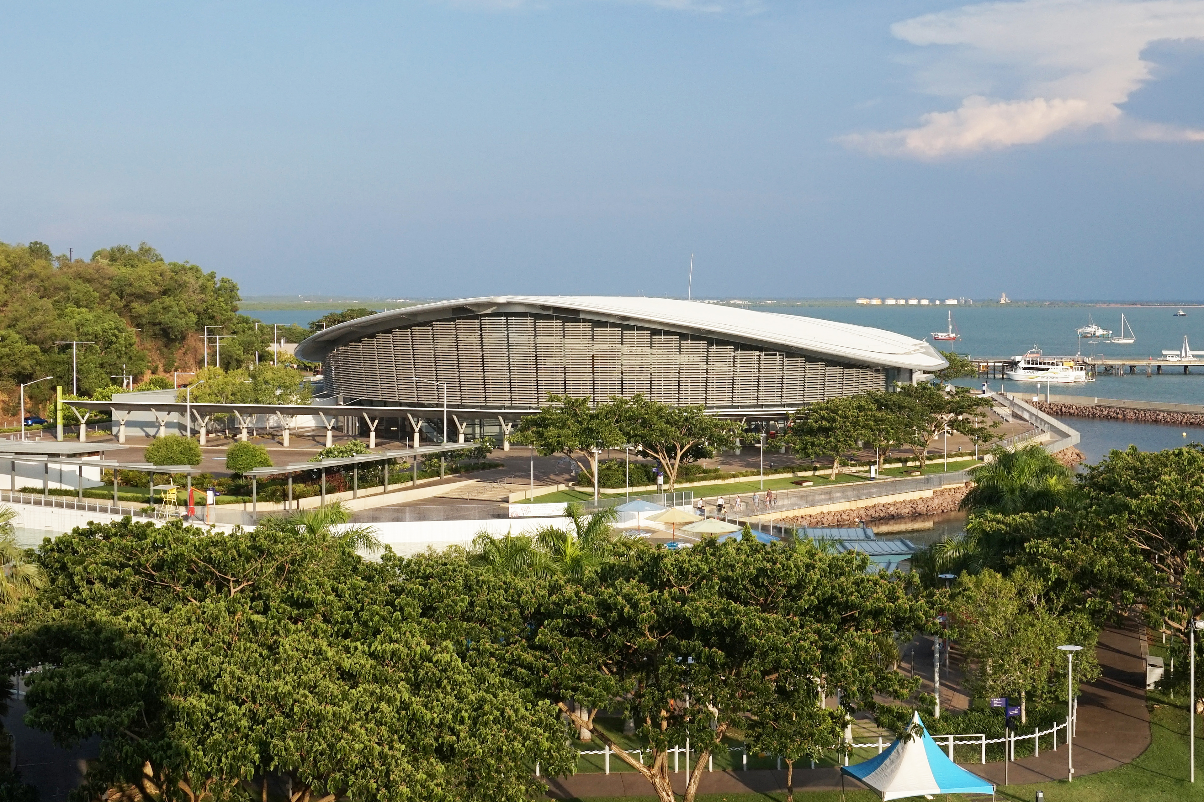 Darwin Convention Center, Darwin, Australia